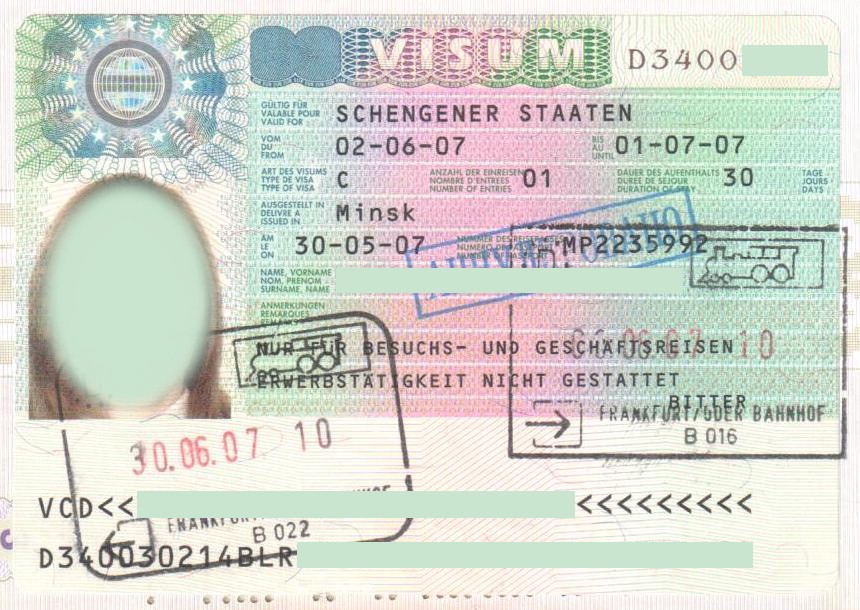 German Visa in a Belarus Passport